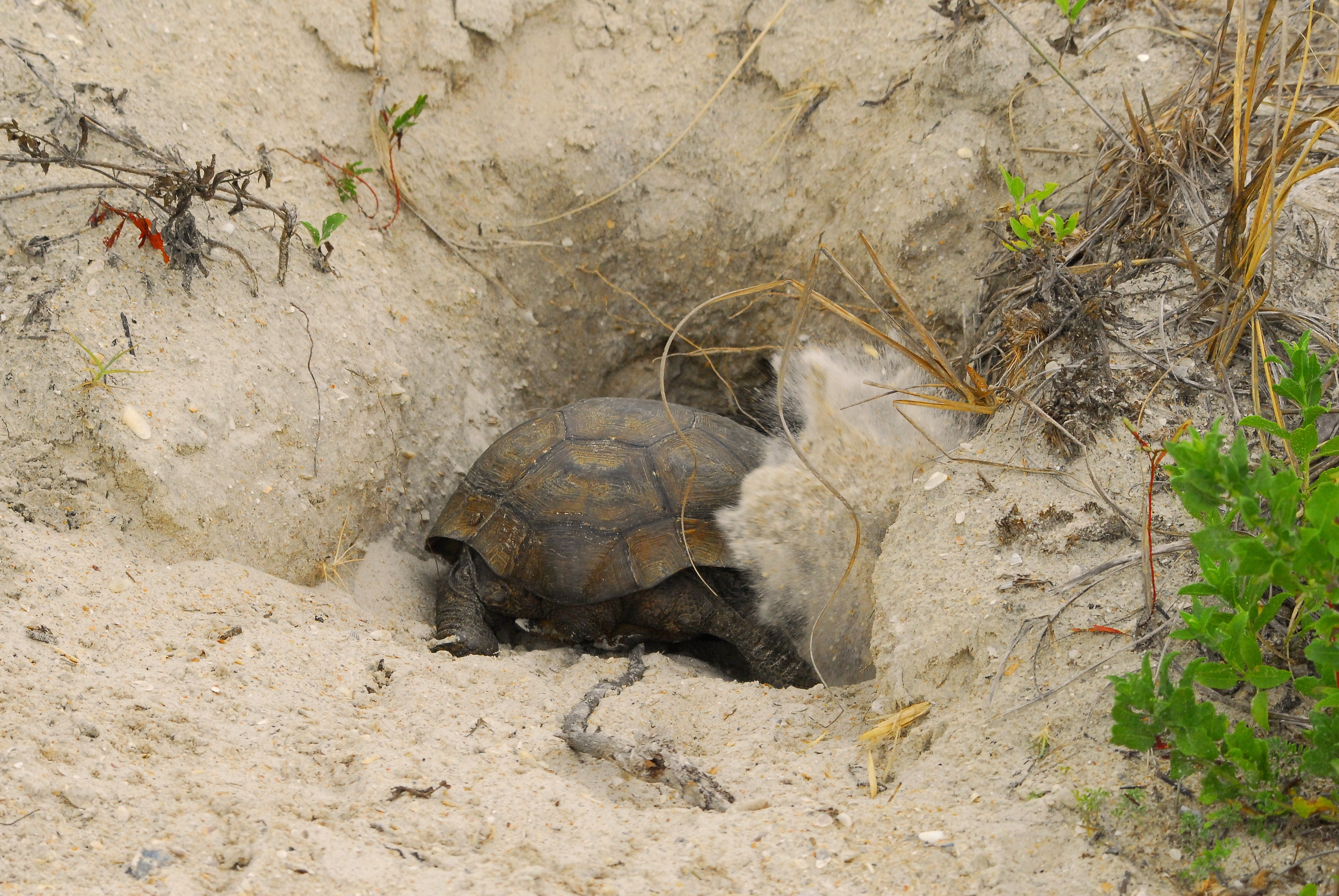 Gopher tortoise at Smyrna Dunes Park